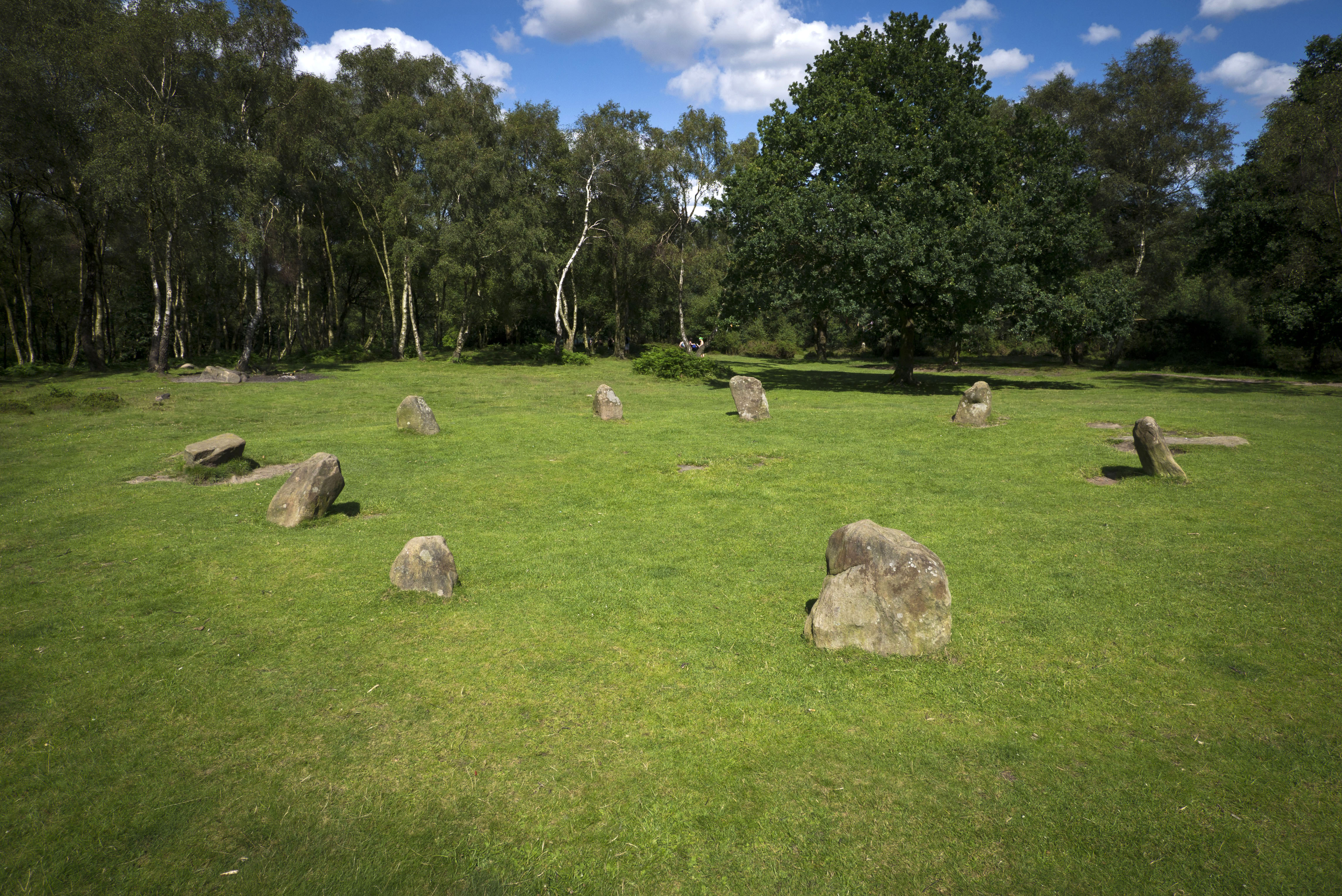 British Isles rural and coastal